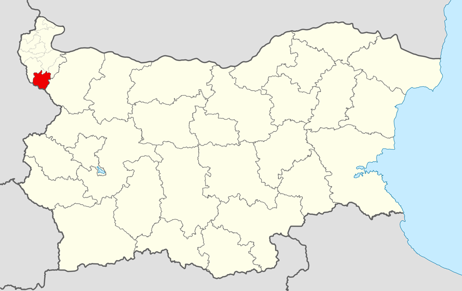 Location map of Chuprene Municipality within Bulgaria and Vidin Province. Equirectangular projection, N/S stretching 130 %. Geographic limits of the map: N: 44.4° N S: 41.1° N W: 22.1° E E: 28.9° E